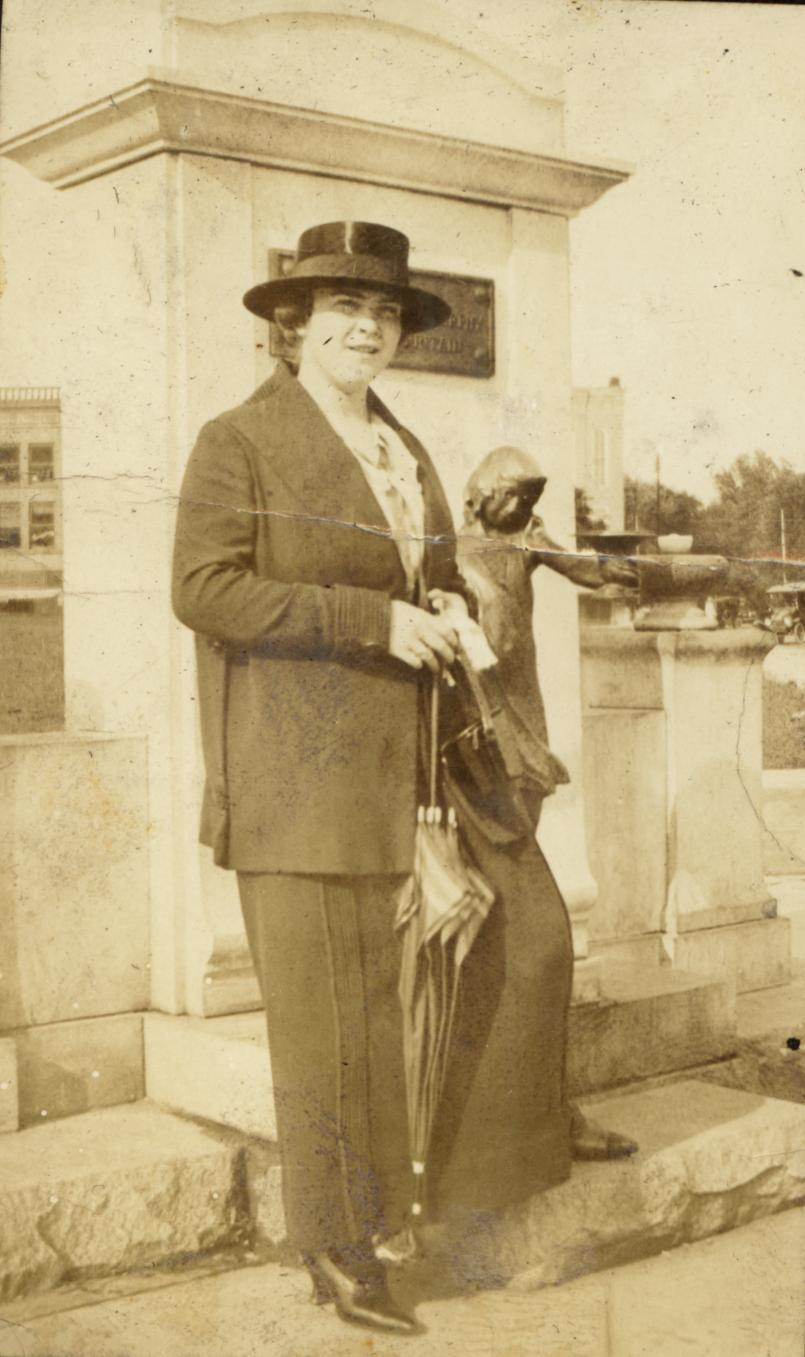 The sculptor Myra Reyndolds Richards stands in front of the bronze sculpture she made in 1918 for the Murphy Memorial Fountain in Delphi, Indiana. This photo was likely taken around 1920